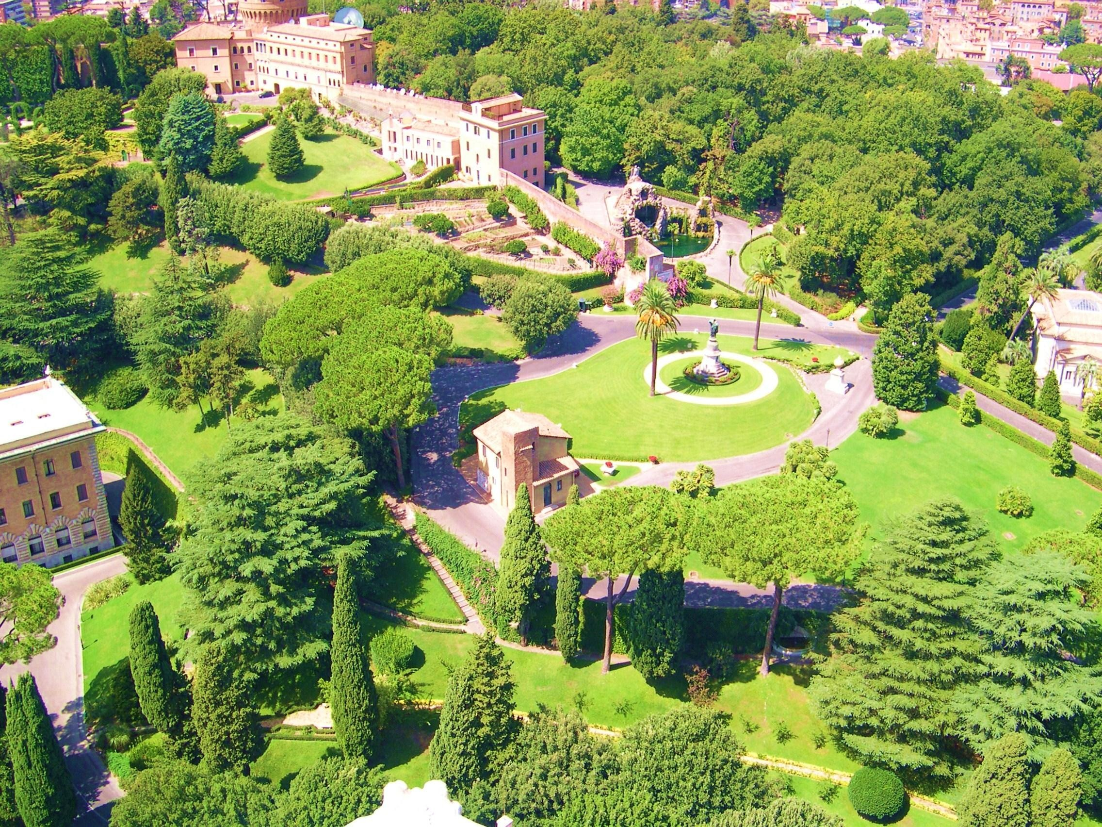 Photo of the Vatican Gardens